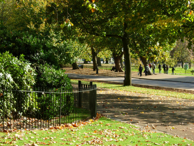 Serpentine Road, Hyde Park Seen from the Cavalry Monument, fallen leaves are lying everywhere but there are many more yet to come down.